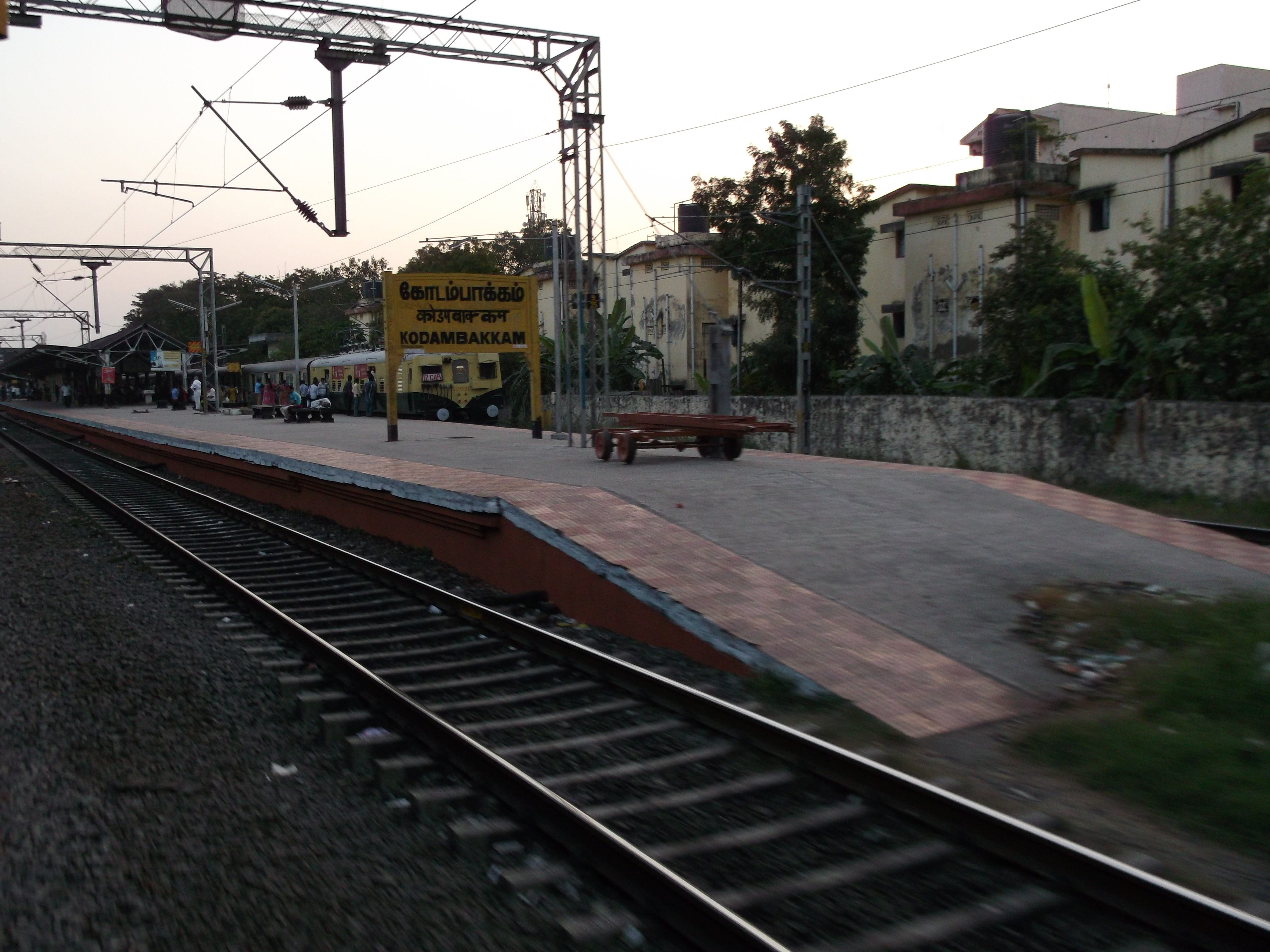 Kodambakkam railway station, taken on 27-Jan-2013 at 6:00 pm.